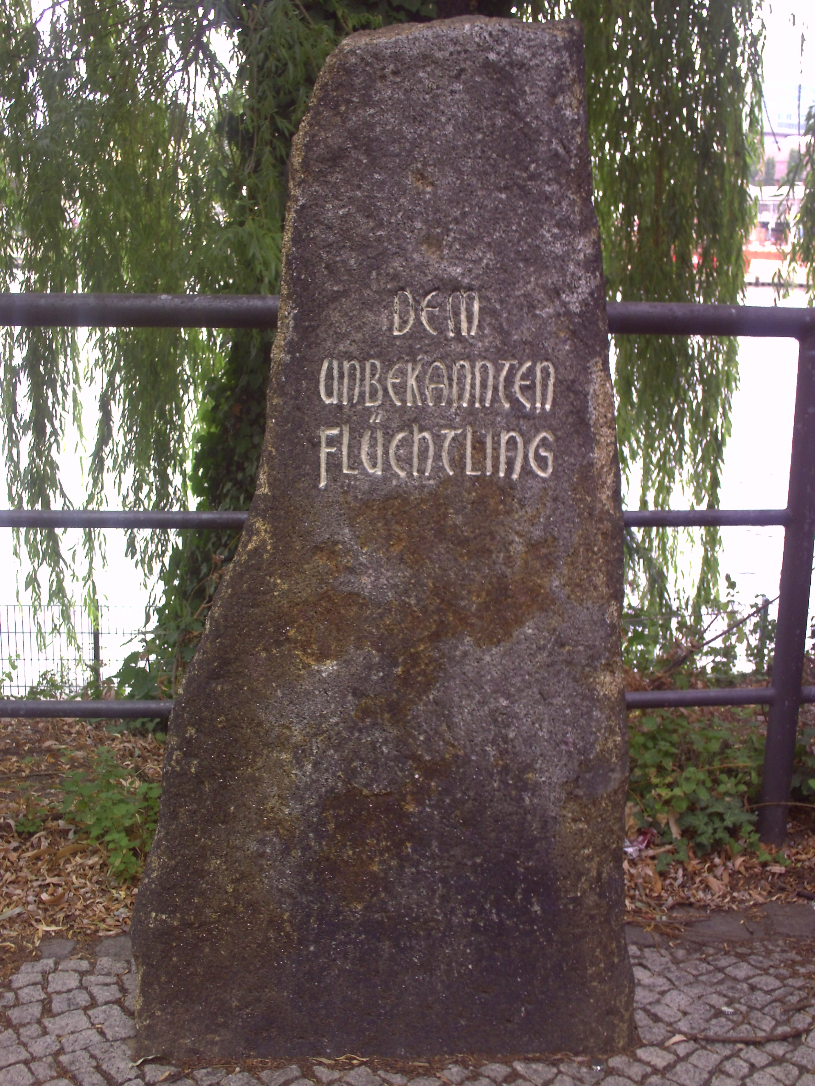 Memorial stone: „To the unknown refugee“ (May-Ayim-Ufer, Berlin-Kreuzberg).